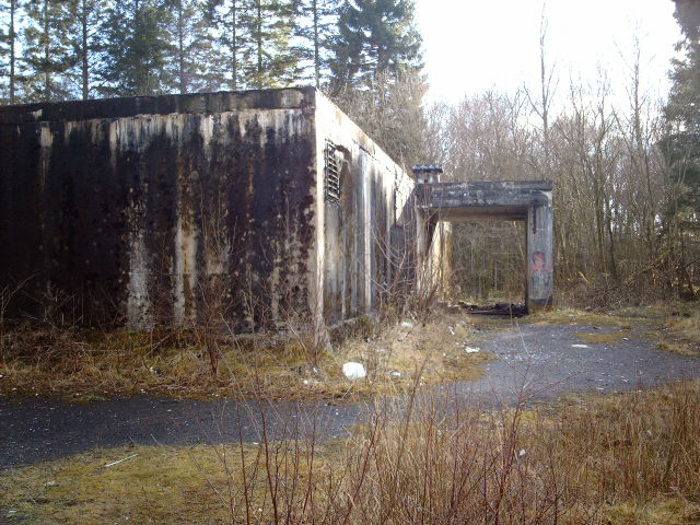 Inverkip Anti Aircraft Operations Room Former AAOR on the edge of the village. Known locally as the radar station. for more detailed information.